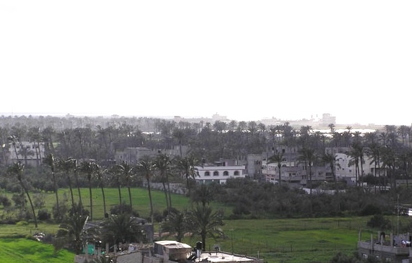 Skyline of Deir al-Balah, Gaza Strip, Palestinian territories